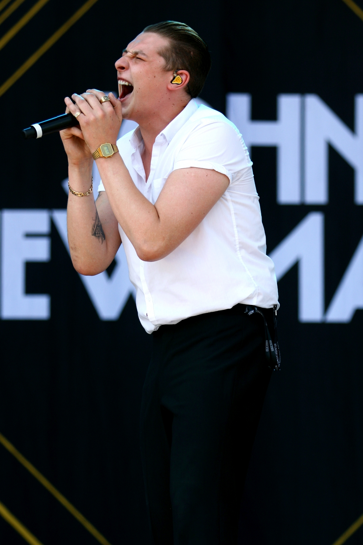 John Newman on the Centerstage of Rock im Park Festival 2014. Festivalsommer This photo was created with the support of donations to Wikimedia Deutschland in the context of the CPB project "Festival Summer".